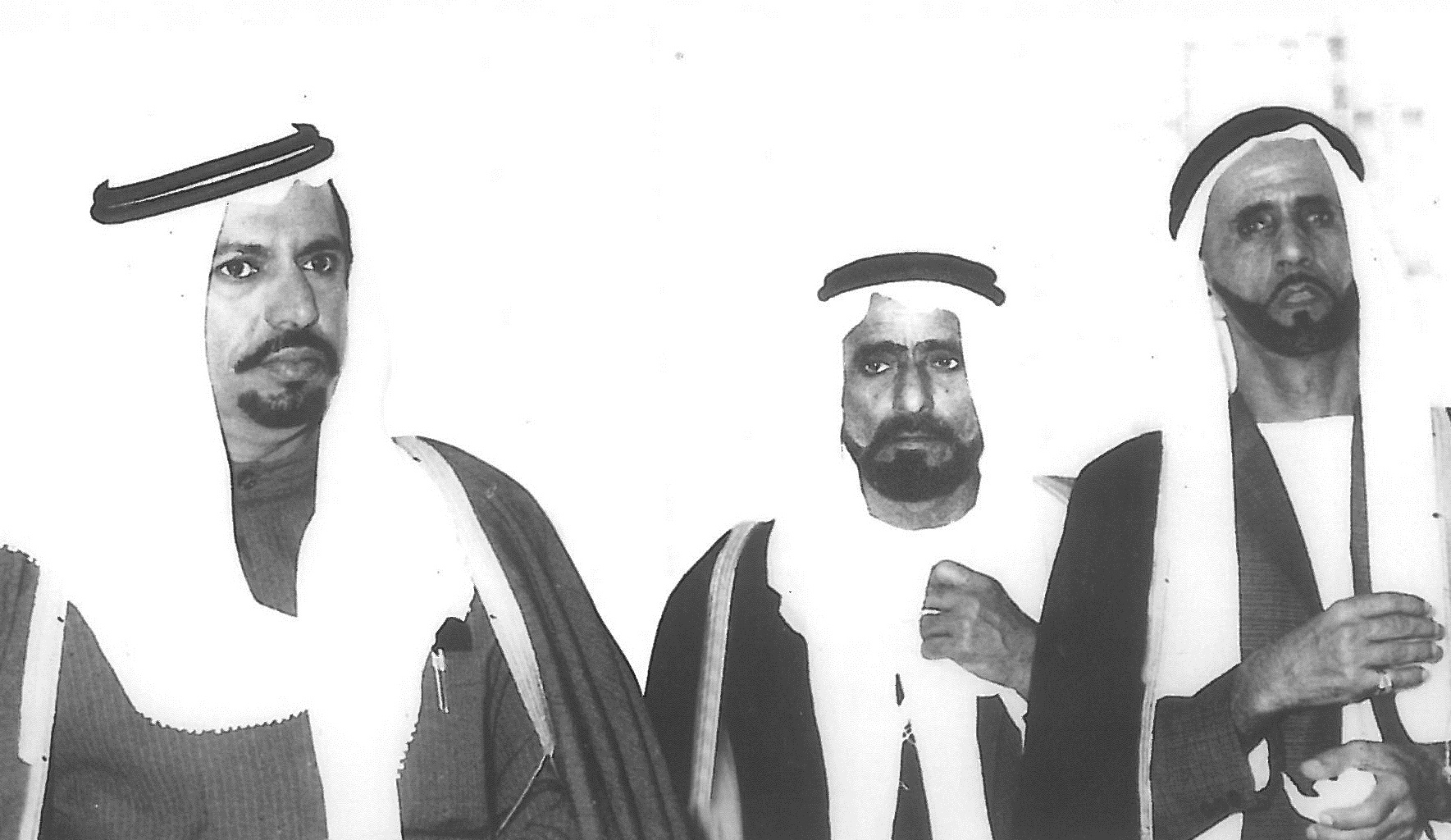 Khalifa